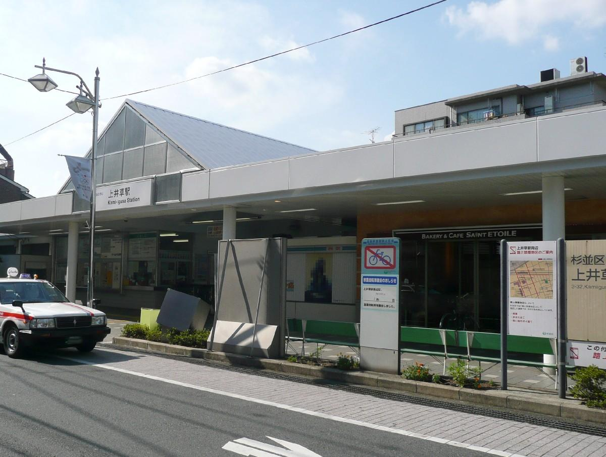 Kami-Igusa Station south side